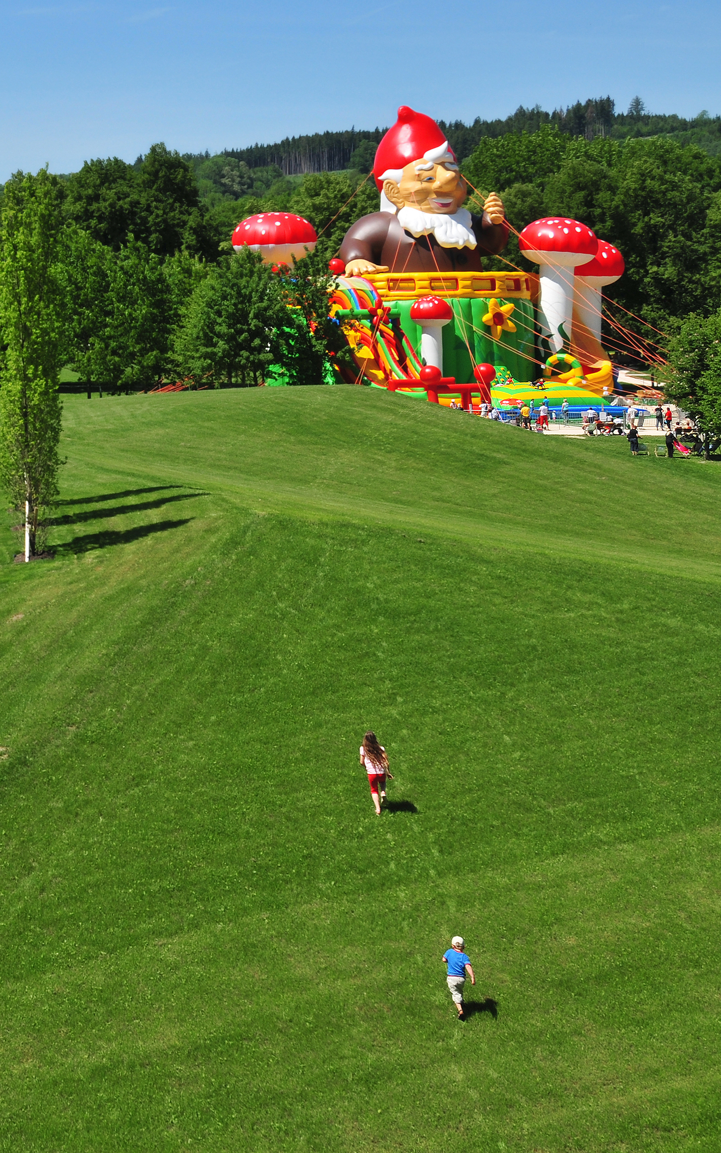 Inflatable structure "Grasi" in the "Botanica 2009" in Bad Schallerbach, Upper Austria.